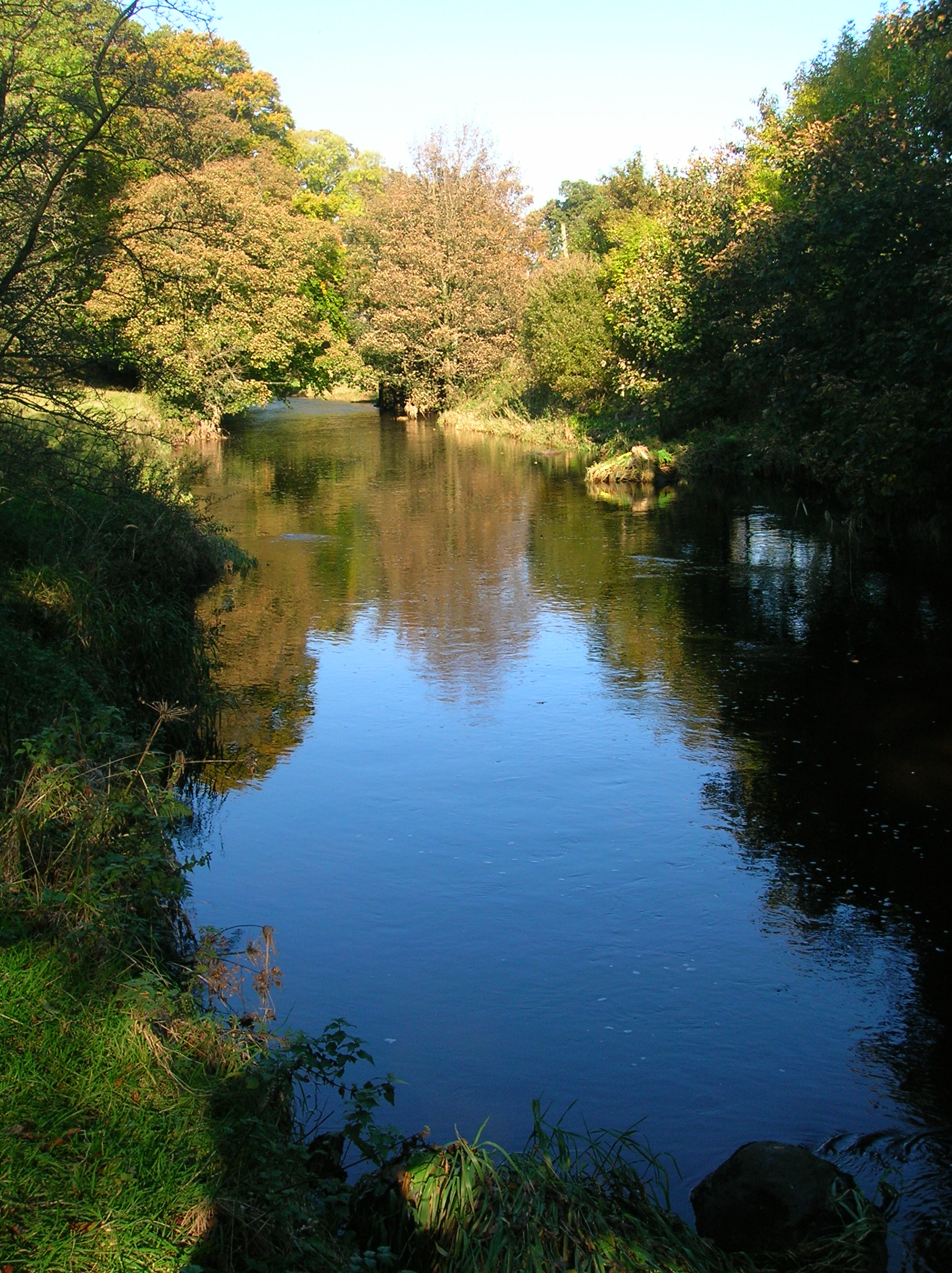 The Annick Water just upstream of Cunninghamhead Mill, North Ayrshire, Scotland. October 2007. Roger Griffith.